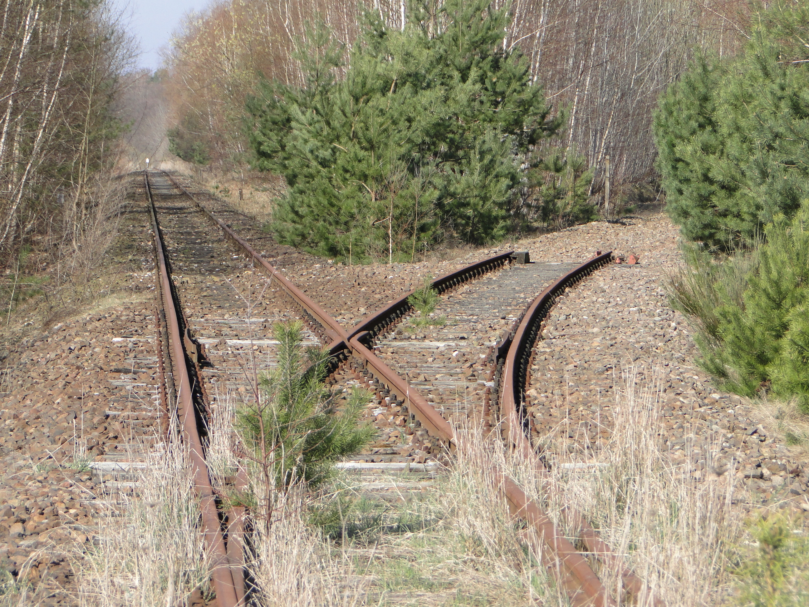 Unused railway of line Wittenberge–Strasburg in Mirowdorf, disctrict Mecklenburgische Seenplatte, Mecklenburg-Vorpommern, Germany